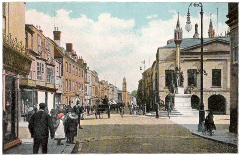 HIGH STREET AND QUEEN VICTORIA MEMORIAL, NEWPORT.—The ancient borough of Newport is the capital of the Island. Its streets are usually busy, and on market days are quite gay and animated. The County Petty Sessional Court is held every Saturday in the Town Hall, which is also the meeting-place of the Town Council. The Isle of Wight County Council meets at the Technical Institute, as does also the Education Authority. In the same building is the Free Library, the gift of Sir Charles Seeley, Bart., who also pays the librarian's salary, with the water rent secured from the Town Council for the splendid supply, recently acquired from the estate of Sir Charles at Bowcombe. The Diamond Jubilee Memorial to Her late Majesty is erected on the spot where at the Jubilee, in 1887, Her Royal Highness received an address of congratulation from the inhabitants of the Isle of Wight. Newport contains the old Grammar School where Charles I. held his conference with representatives of the Parliament, and many other buildings of historical interest. The monument to the Princess Elizabeth, daughter of Charles I., is in St. Thomas' Church.